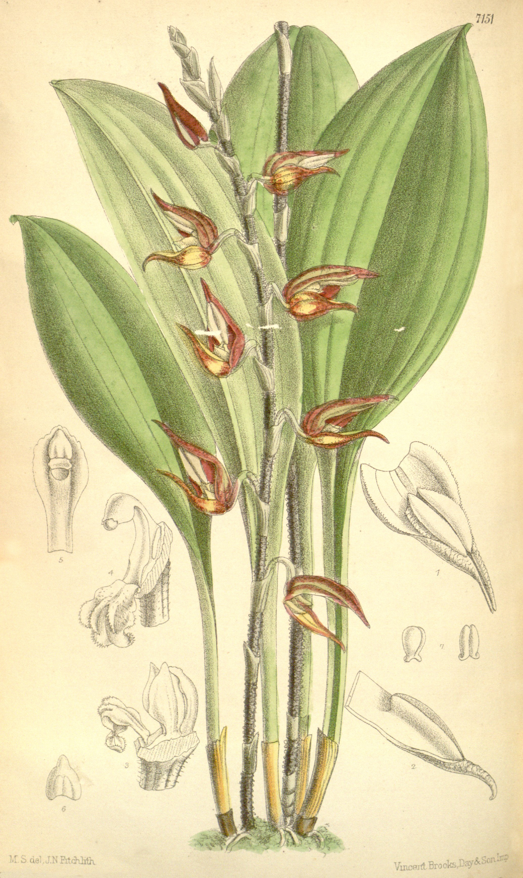 Illustration of Scaphosepalum pulvinare